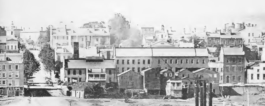 Harkness & Sons Foundry in 1848 is the large 2-story and 3-story in the center foreground